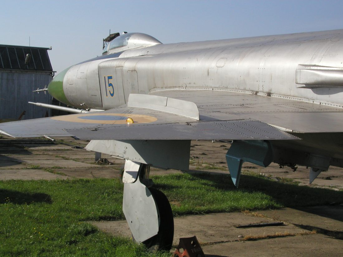 Former Ukrainian Sukhoi Su-15TM fighter (in the Museum of Aviation in Kosice, Slovakia)